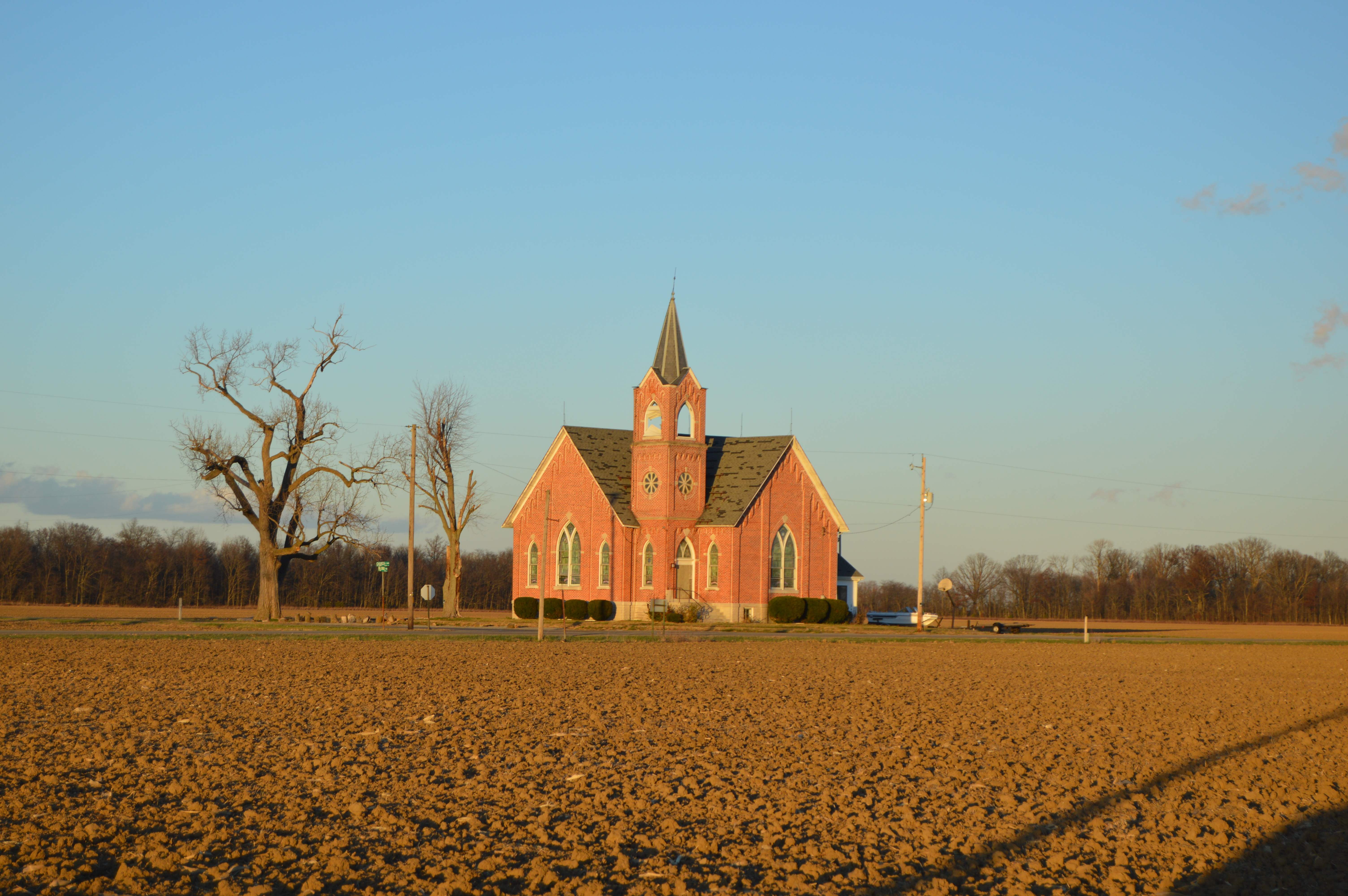 Distant view from the southwest of the abandoned Grace Methodist Church, located on the northeastern corner of the intersection of Church and Dog Creek Roads in Jackson Township, Van Wert County, Ohio, United States. It was built in 1909.